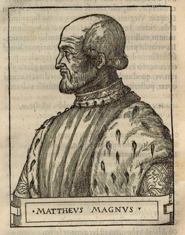 Matto Visconti as portrayed on Paolo Giovio "Life of the twelce princes of Milan" (Novocomensis Vitae duodecim vicecomitum Mediolani principum)